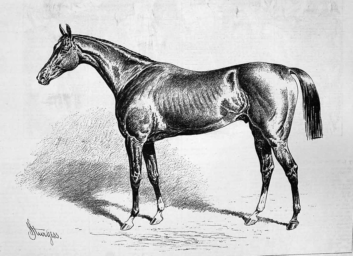 Engraving of French racehorse Chamant from Illustrated London News, May 1877. After painting by John Sturgess (d. 1903). Author dead for 109 years.